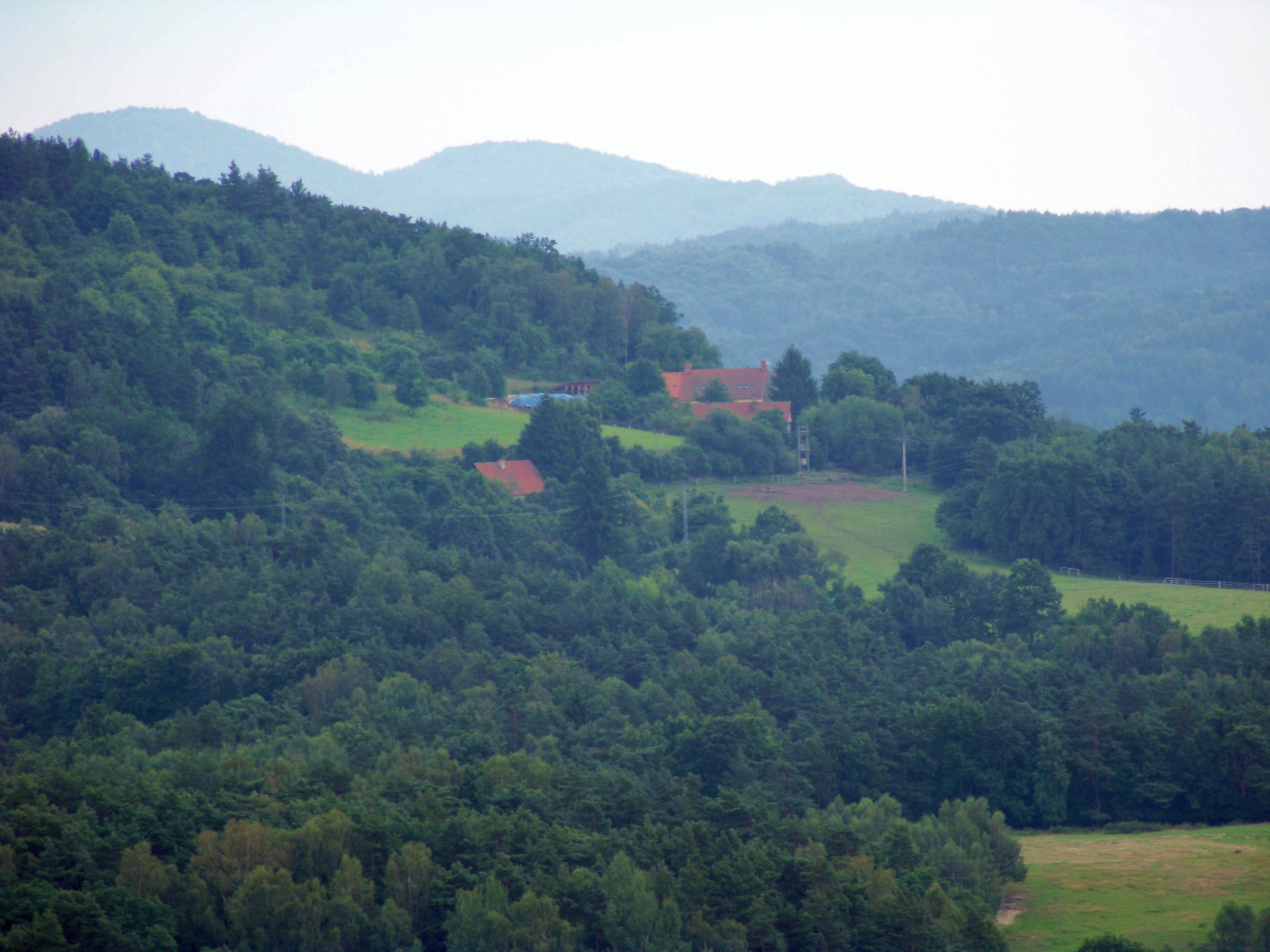 View from Čap Hill. Protected Landscape Area of Kokořínsko. (Cadastral area of Zátyní, city of Dubá, Česká Lípa District, Liberec Region, the Czech Republic.)